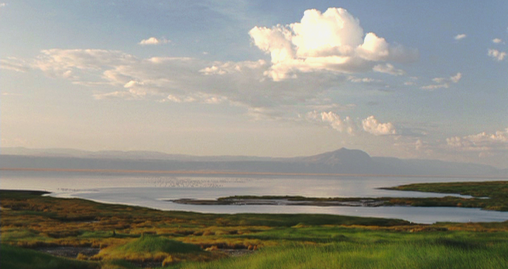 Lake Natron is a salt lake located in northern Tanzania, close to the Kenyan border, in the eastern branch of the East African Rift. The lake is fed by the Southern Ewaso Ng'iro River and also by mineral-rich hot springs.